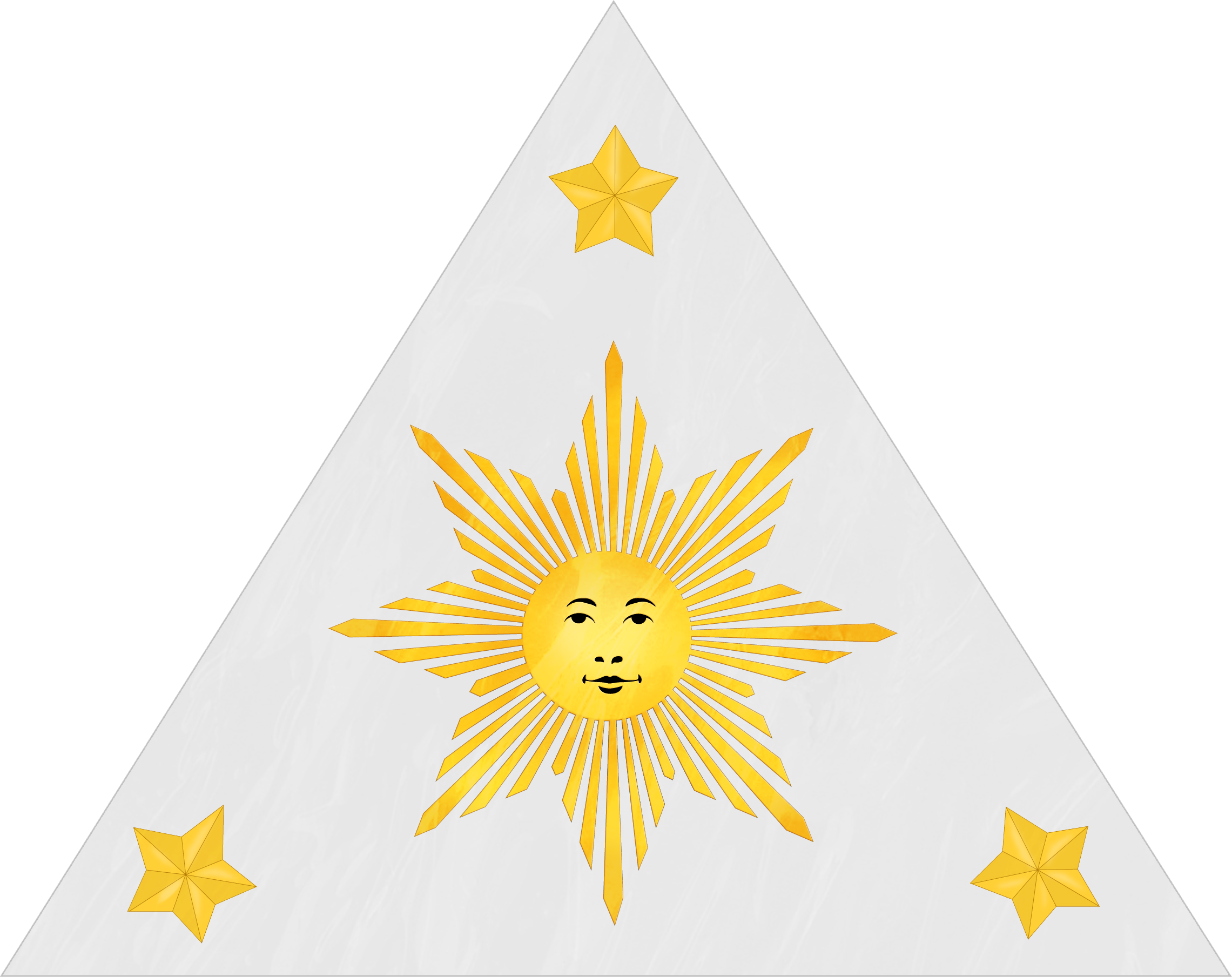 Emblem of the First Philippine Republic